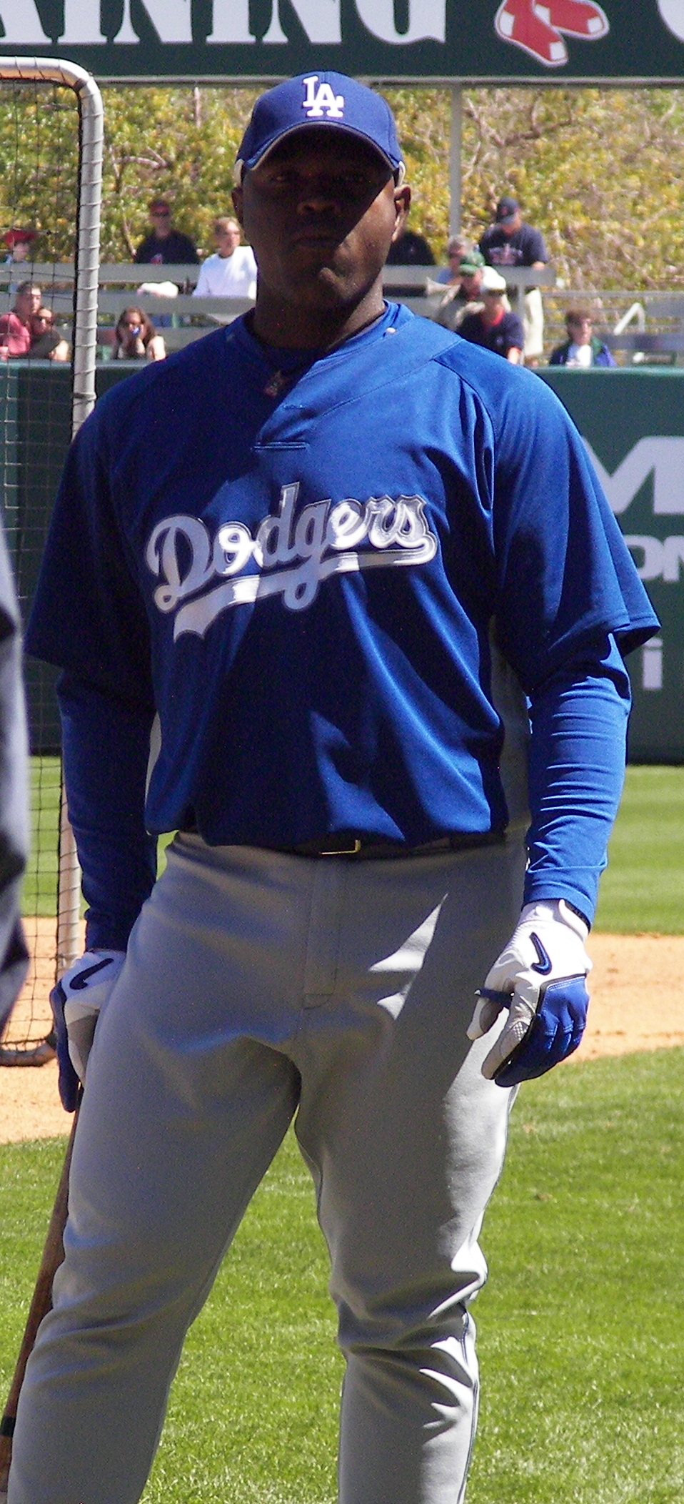 Los Angeles Dodgers catcher Sandy Martínez before a Dodgers/Boston Red Sox spring training game at City of Palms Park in Fort Myers, Florida.